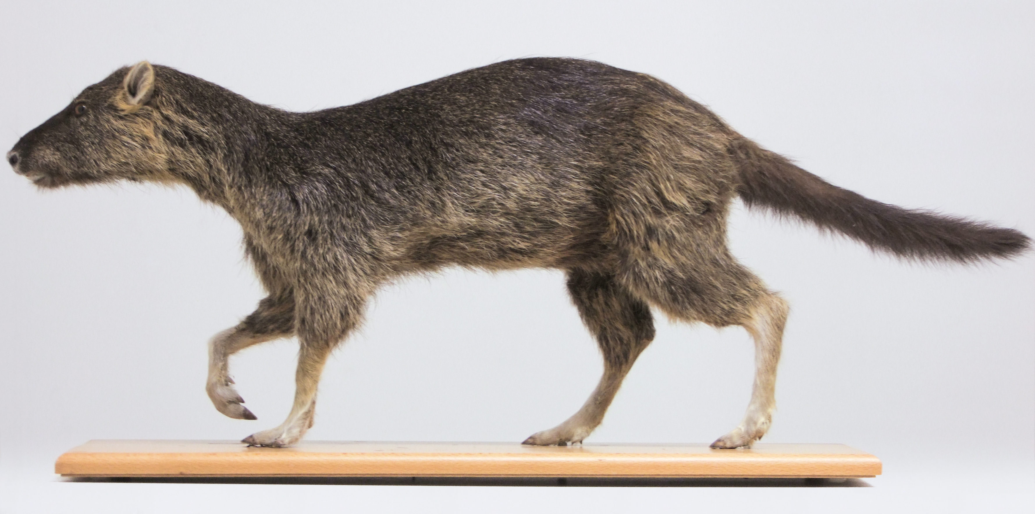 Reconstruction of Amphirhagatherium weigelti. Model by Jörg Erfurt and Hans Altner.